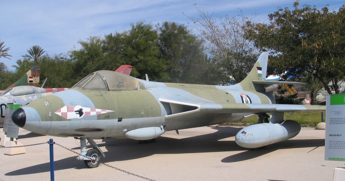 Description: Hawker Hunter FGA.73 (?) at Muzeyon Heyl ha-Avir, Hatzerim airbase, Israel. 2006. Formerly of the Jordanin Air Force. Source: Photo by me, User:Bukvoed.